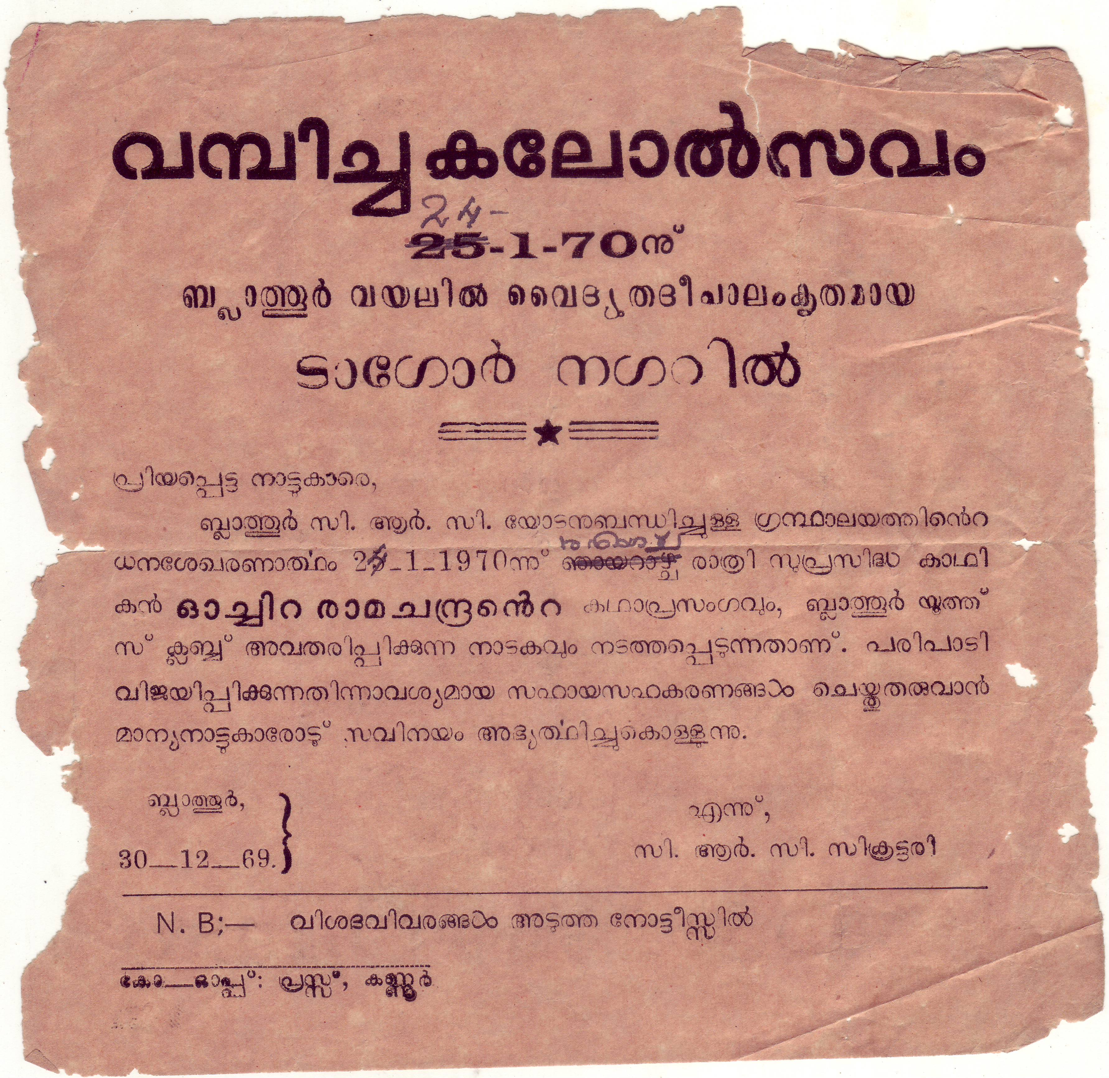 old notice about a cultural function at Blathur, for collecting money for starting a library